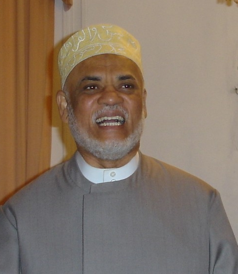 President of Comoros Union Ahmed Abdallah Sambi